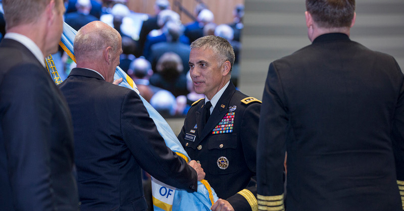 General Paul M. Nakasone, USA, assumes command from Admiral Mike Rogers, USN, as Commander U.S. Cyber Command and Director, National Security Agency/Chief, Central Security Service. (FORT MEADE, Md., May 4, 2018)